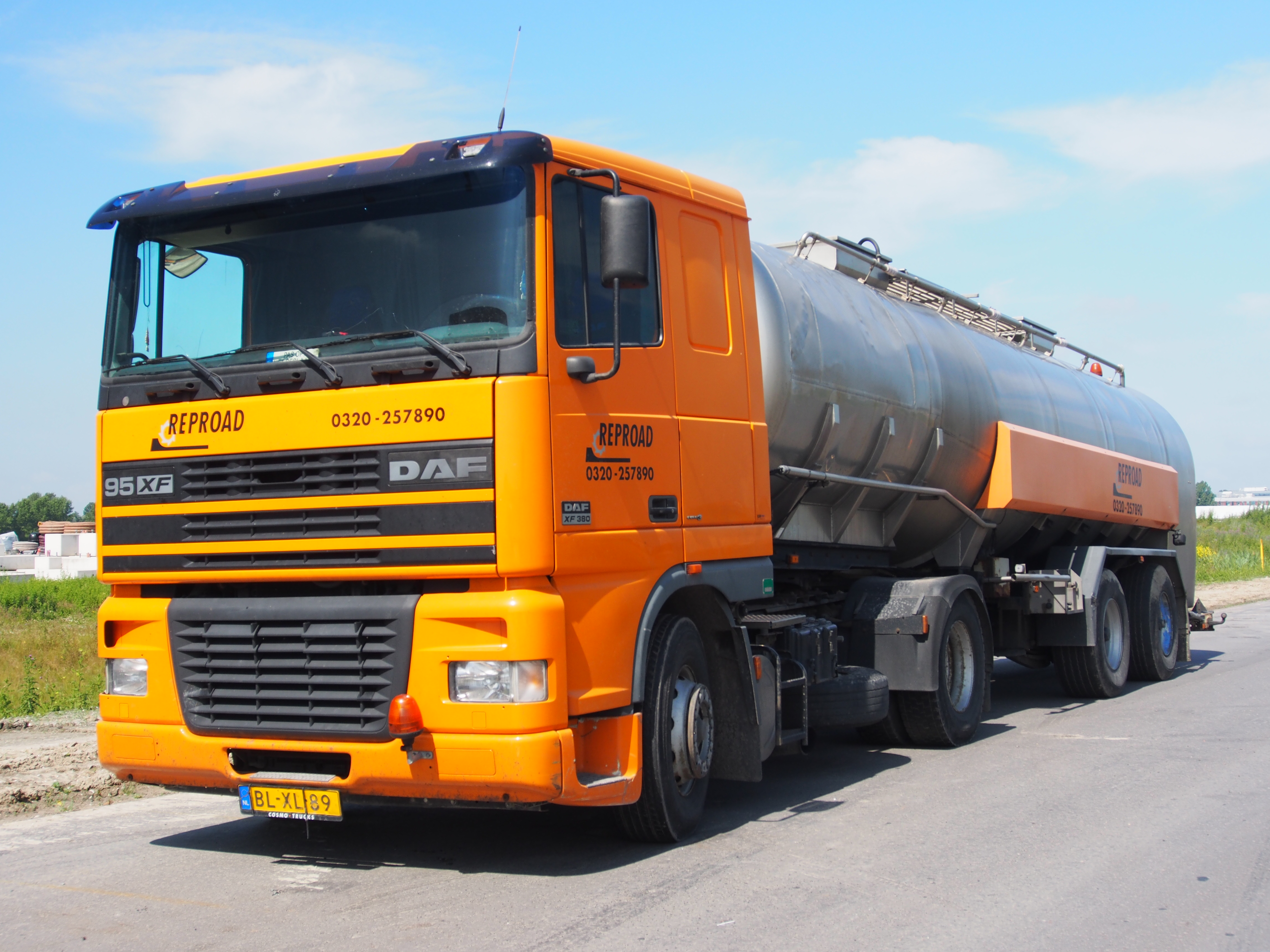 Photographed at Hoofddorp, the Netherlands.